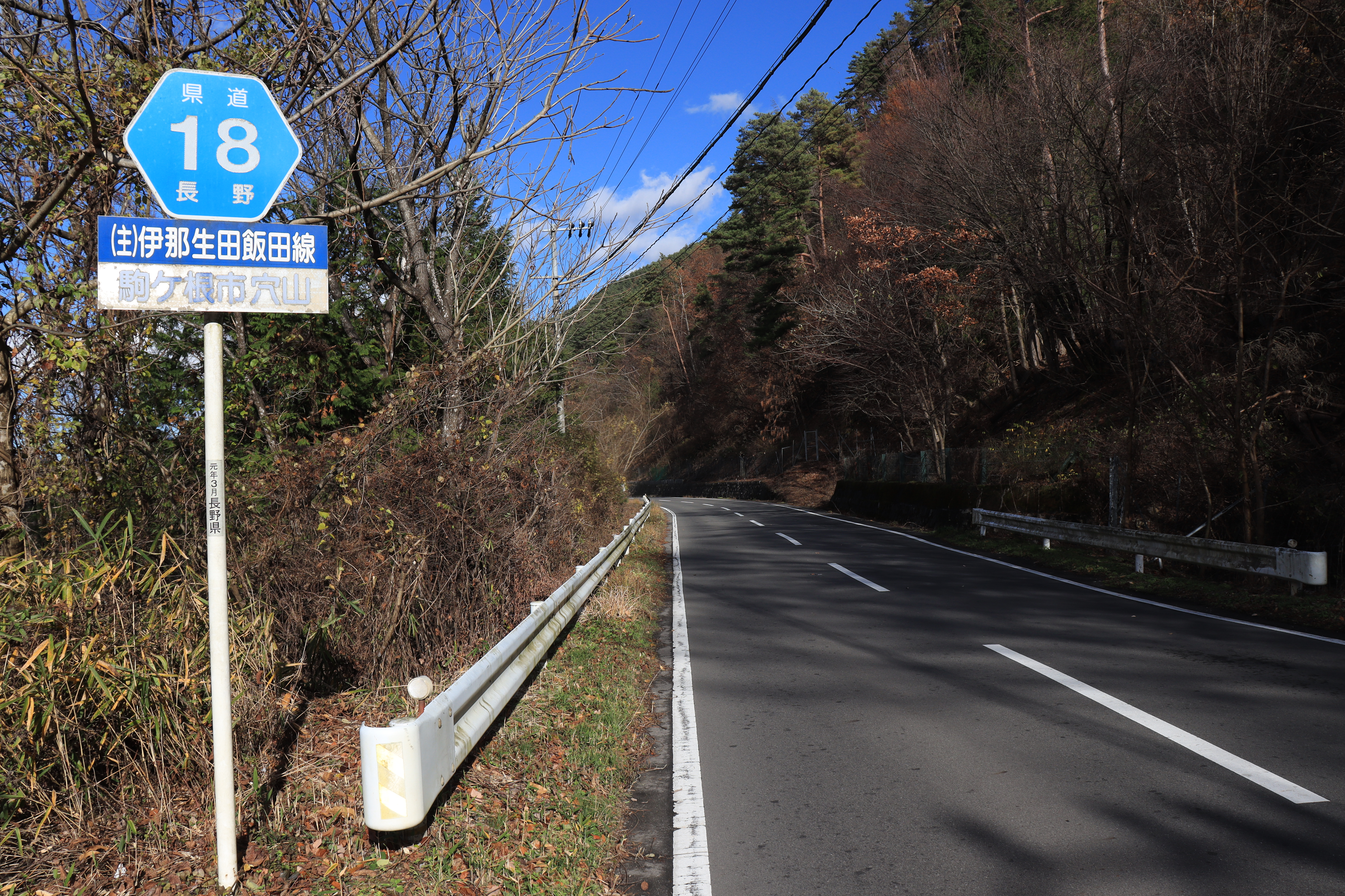 Nagano Prefectural Road Route 18 in Nakazawa, Komagane, Nagano Prefecture, Japan.